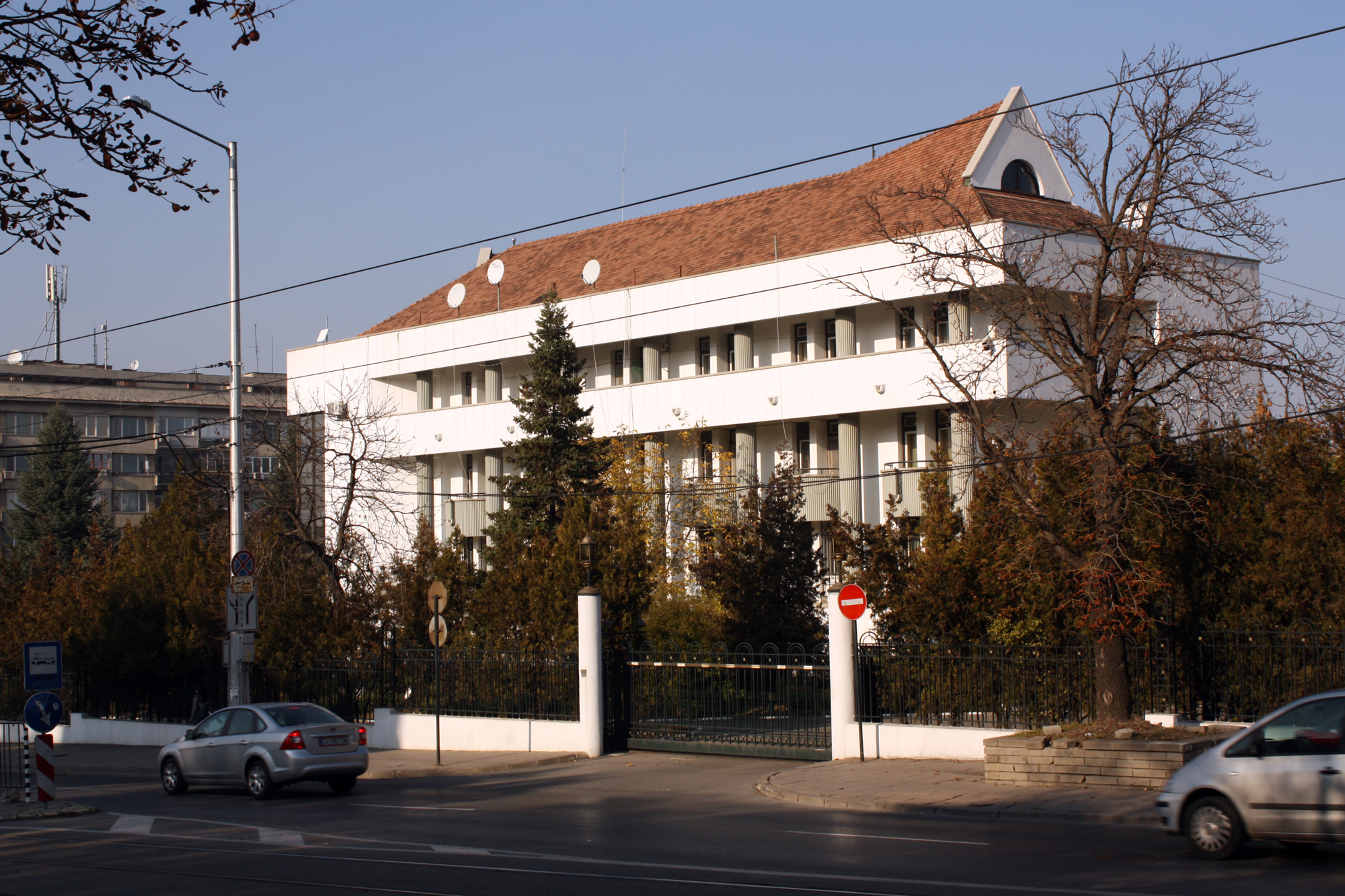 View of Romanian Embassy from Shipchenski Prohod Blvd., Sofia, Bulgaria